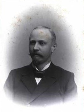 Jens Johan Michael Lange (1861-1922), Danish industrialist